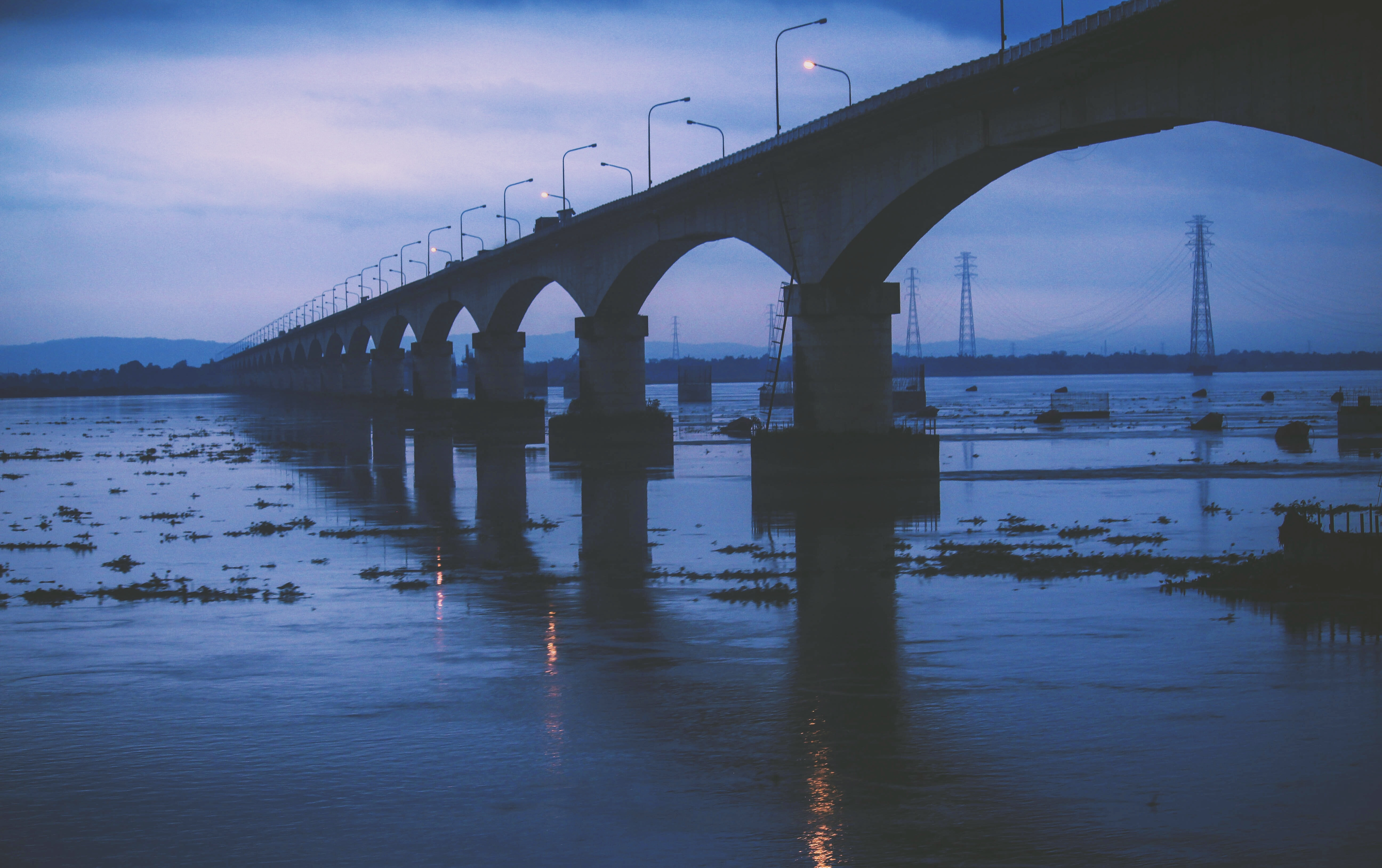 The bridge to success